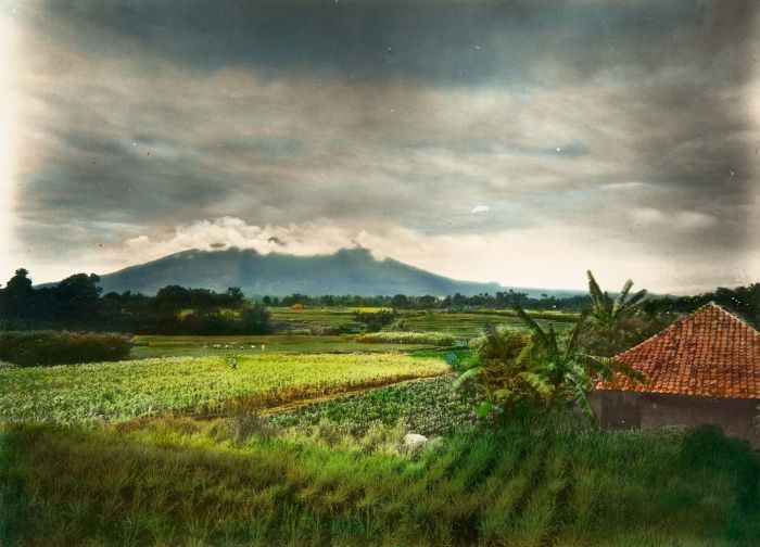 Agricultural school Pantjasan and the Salak volcano, Buitenzorg